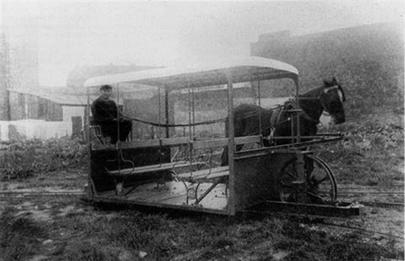 Caillet's Patented Monorail System: Passenger Car